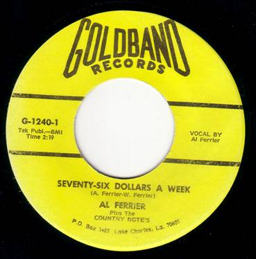 Seventy-Six Dollars a Week by Al Ferrier Plus the Country Notes, Goldband [year unknown].